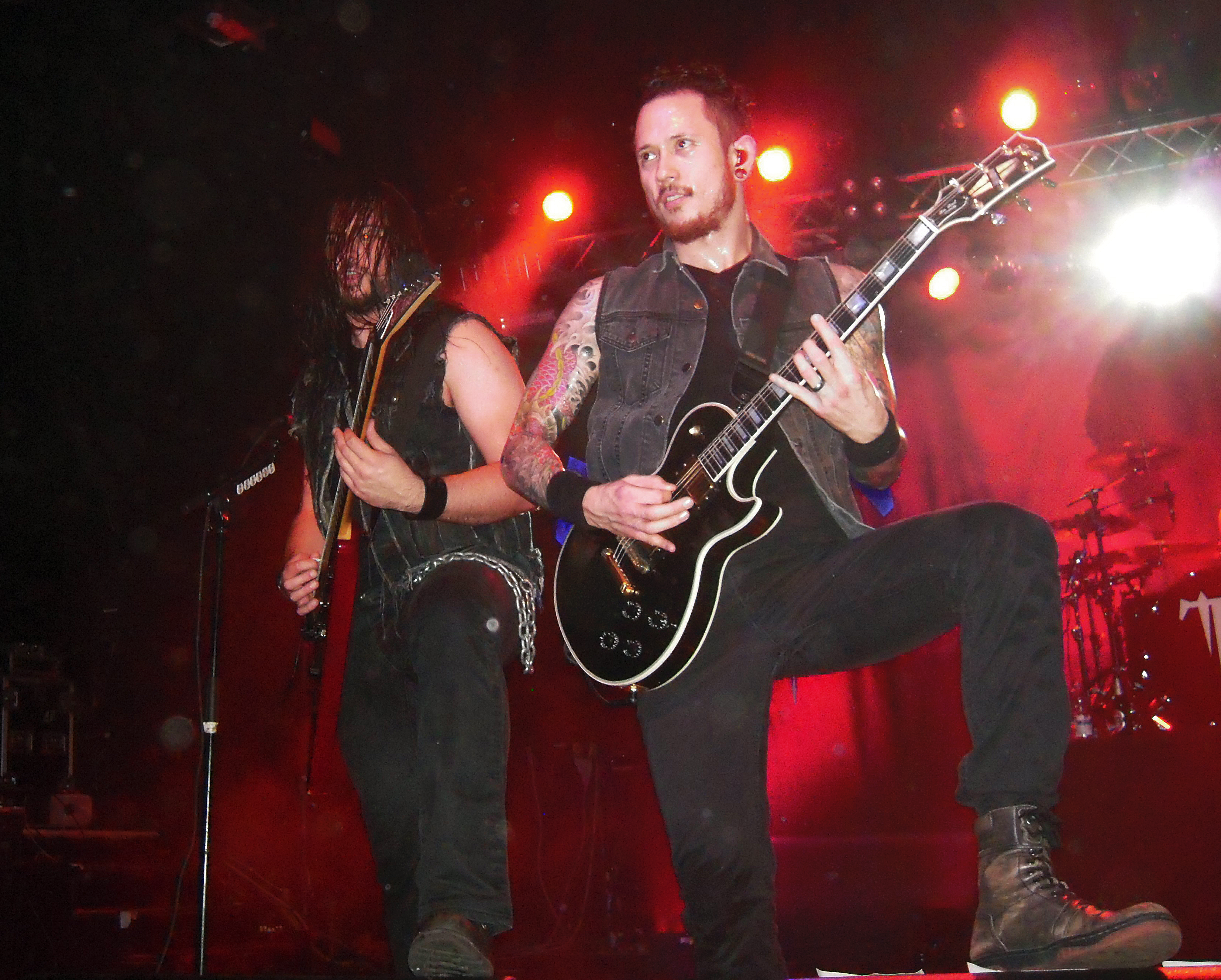 Matthew K. Heafy und Corey Beaulieu on a concert in Hamburg